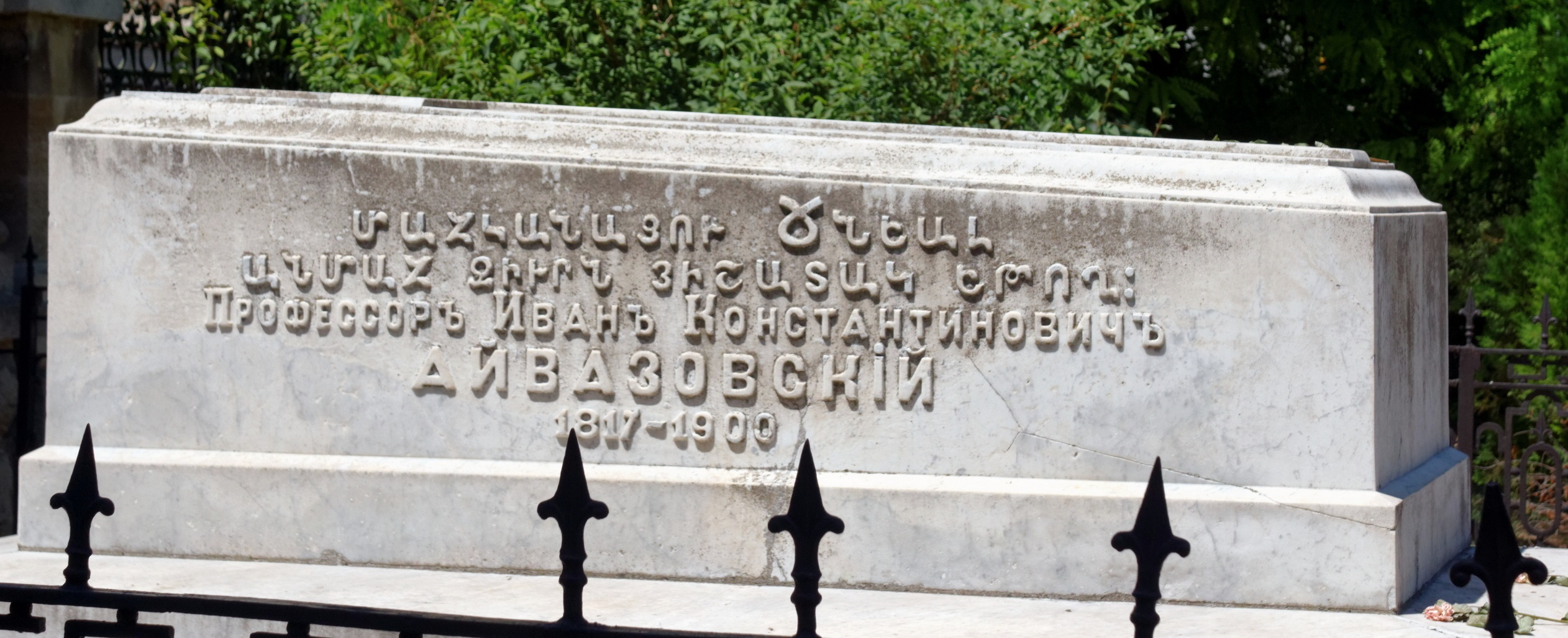 Feodosiya, tomb of Ivan Aivazovsky